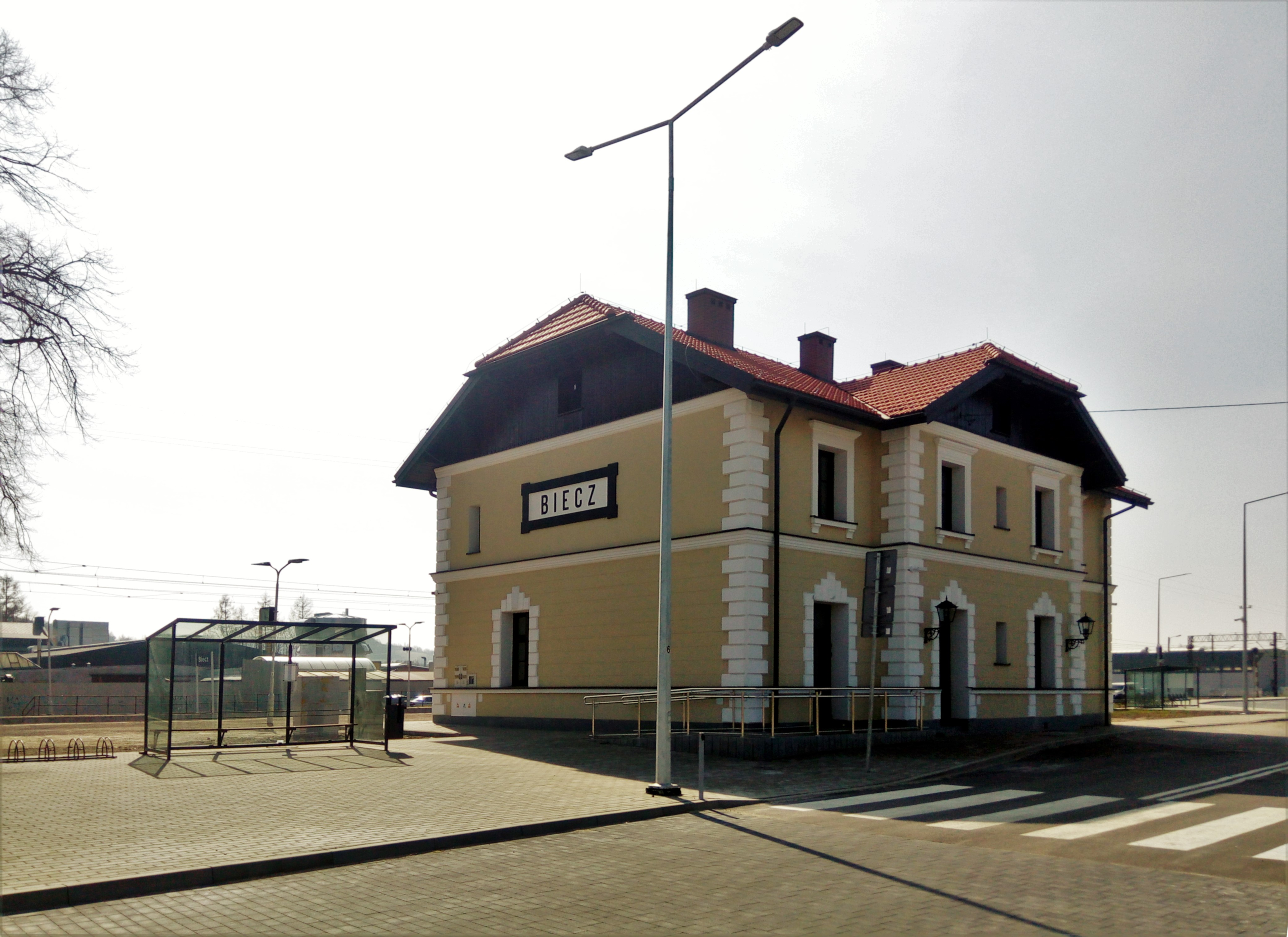 Railway station building in Biecz, southern Poland.